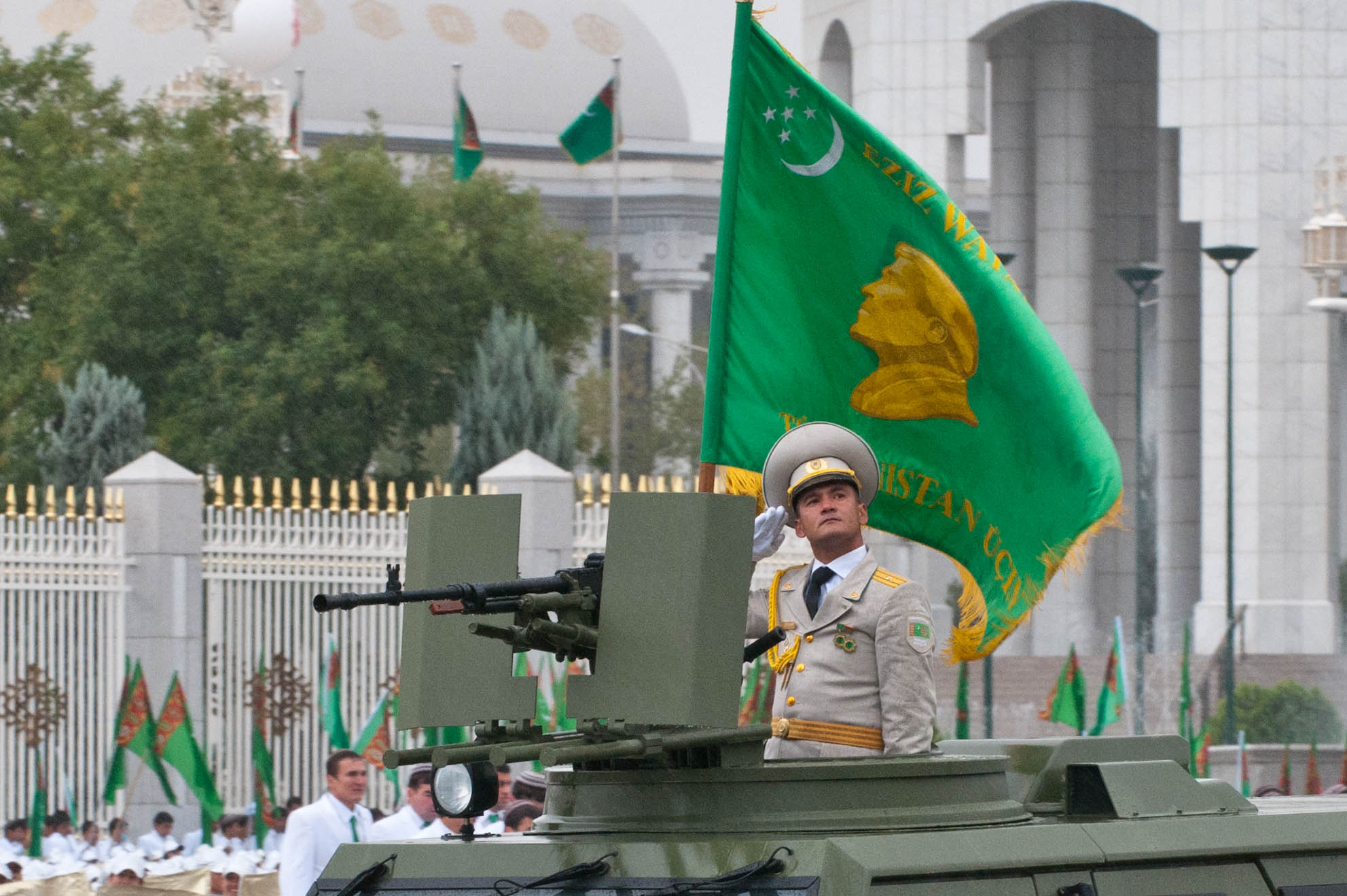 Celebrating the 20th year of independence in Turkmenistan